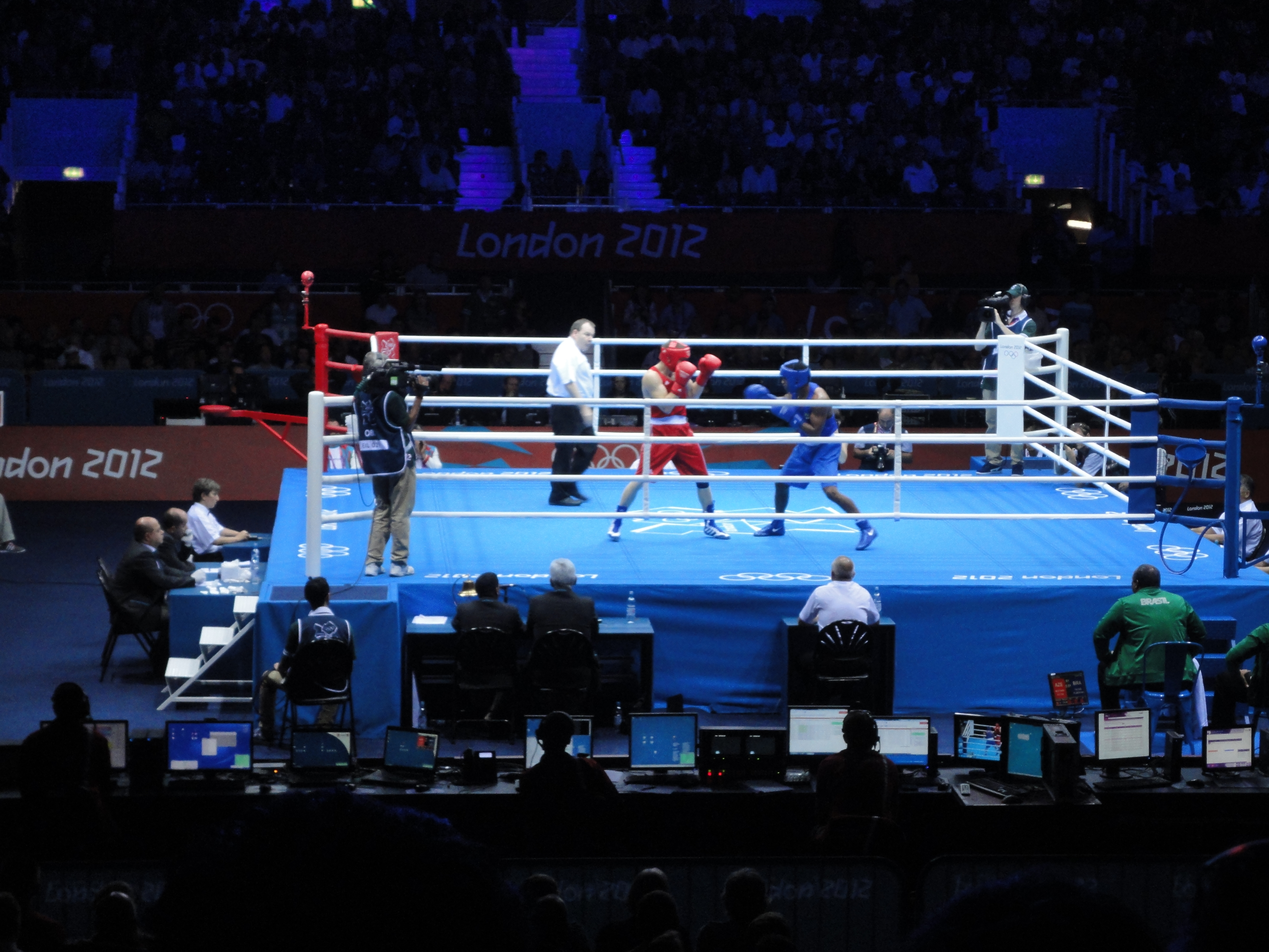 Soltan Migitinov (AZE, red) and Esquiva Falcão Florentino (BRA, blue) in their men's middleweight round of 16 bout at the 2012 Summer Olympics.